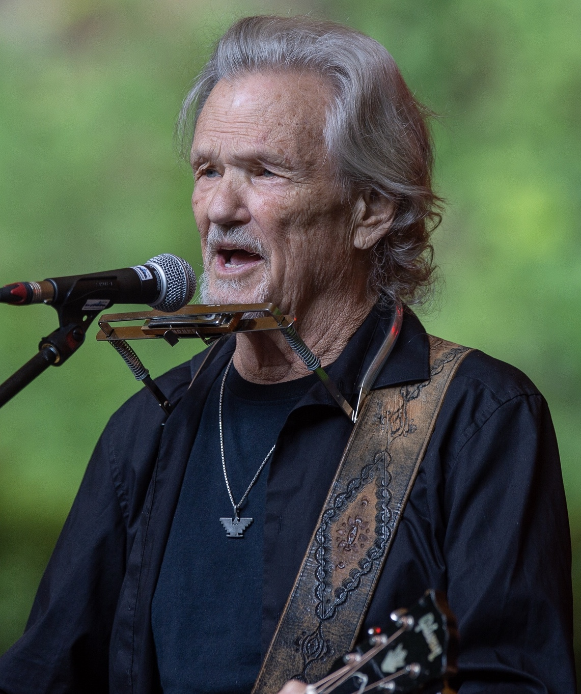 Concert Franken, Konzert, Kris Kristofferson, Livekonzert, Livemusik, Musik, Serenadenhof